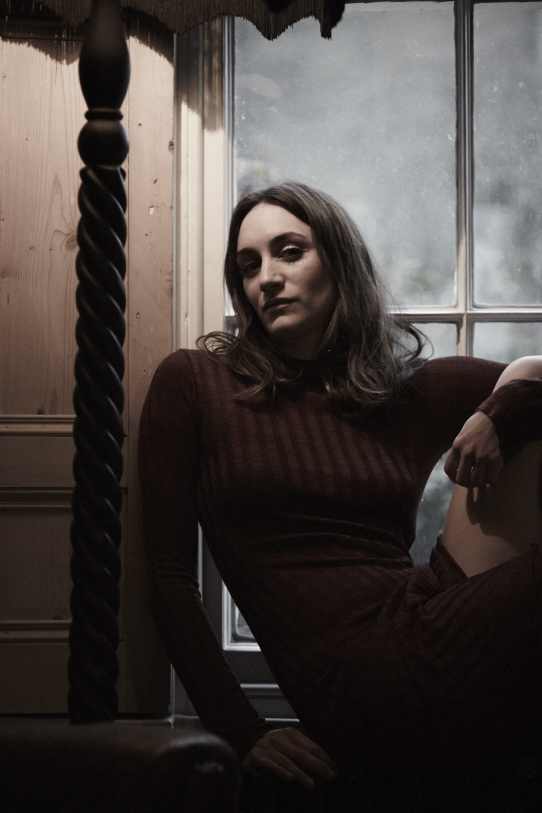 London 2015